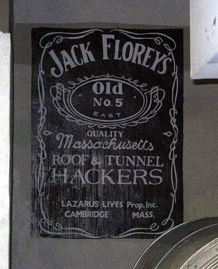 color adjust to the Mit-signin.jpg photo, so you could actually see it. The original was I don't know how Kcheatle would license the photo, but given that it's a derived work of a GFDL work, I assume it's still GFDL.